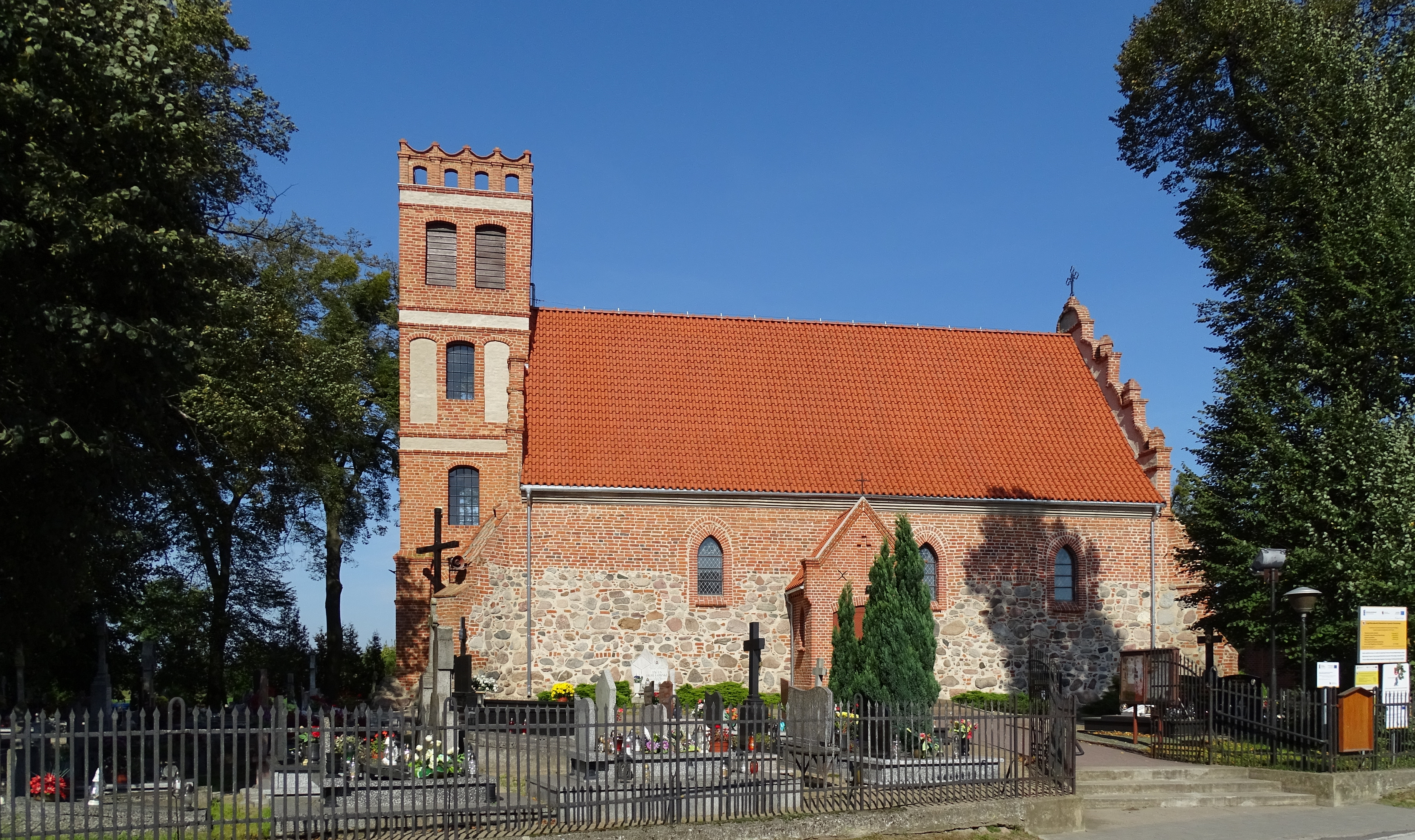 Ostrowite, Gmina Golub-Dobrzyń, Poland. Church of Mary Magdalene. Built turn of the XIII century.